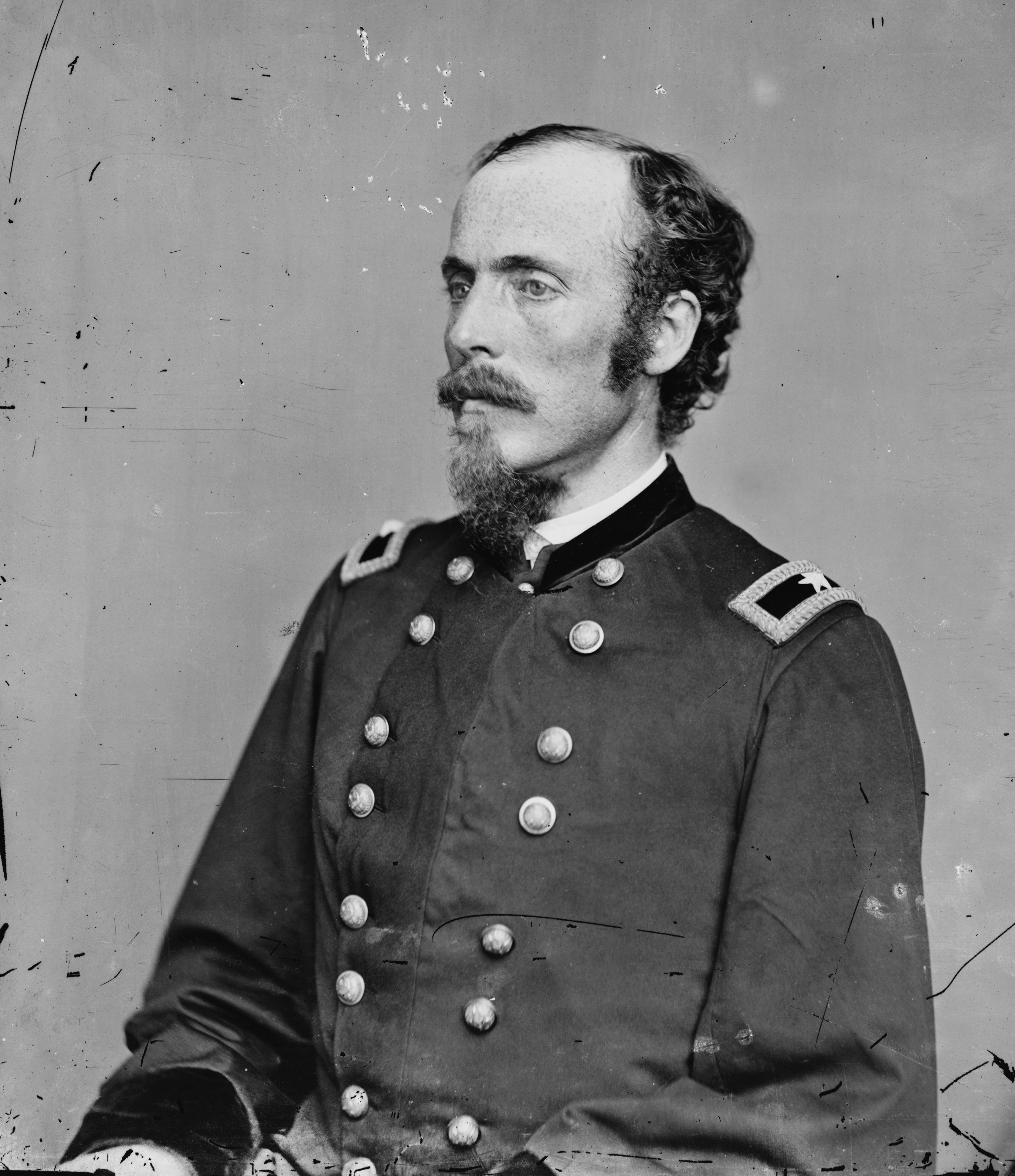 Emerson Opdycke. Library of Congress description: "Gen. Emerson Opdycke, U.S.A."